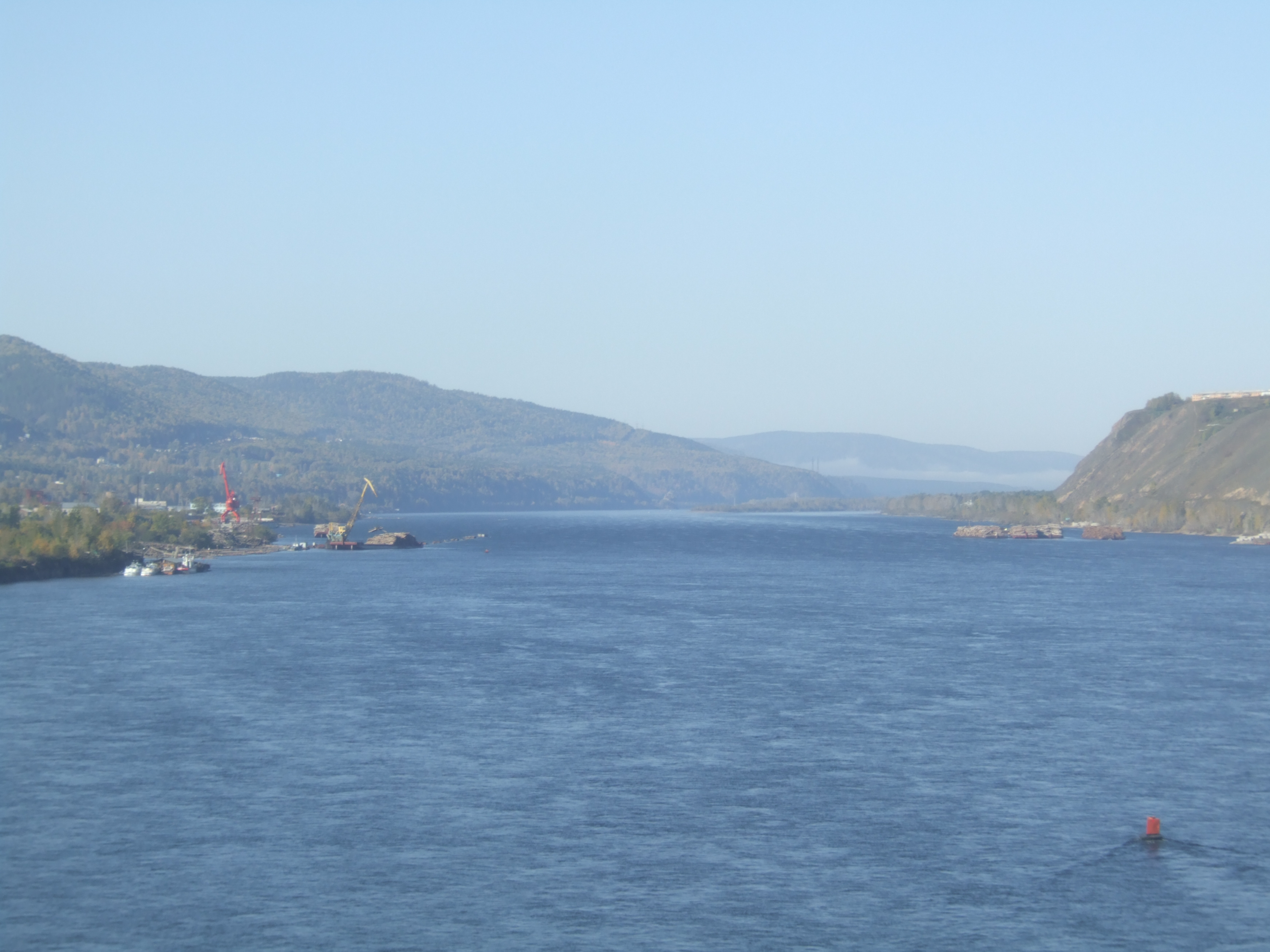 The westward view of the Yenisei River as seen from the railway bridge.